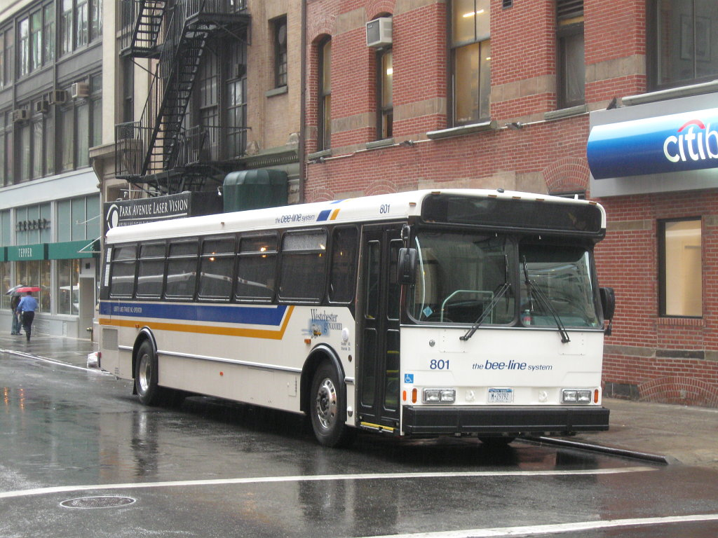 Bee-Line #801, an Orion V single-door bus, lays over in Manhattan before beginning a run on the BxM4C.